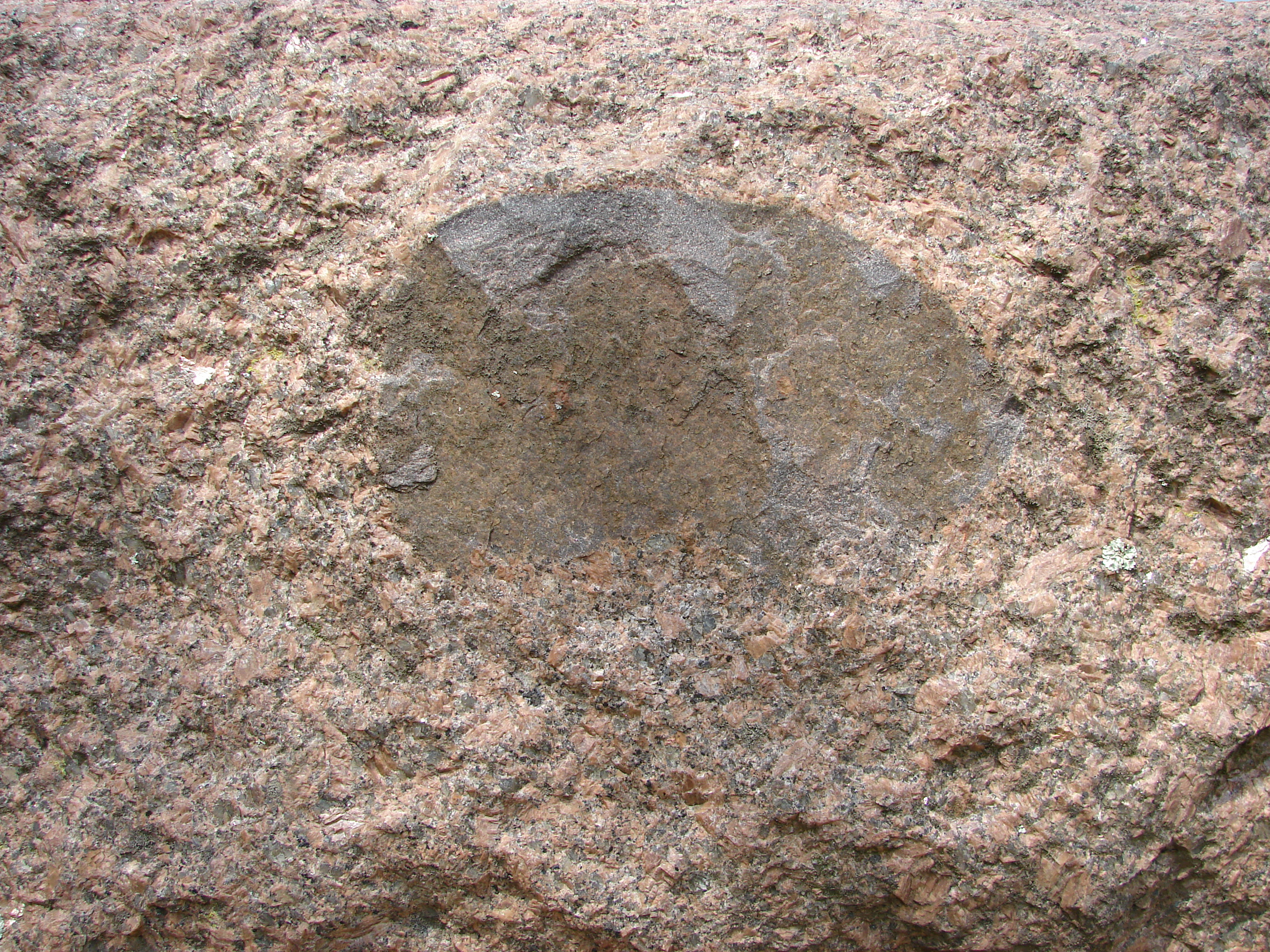 Rounded mafic xenolith in Itu granite